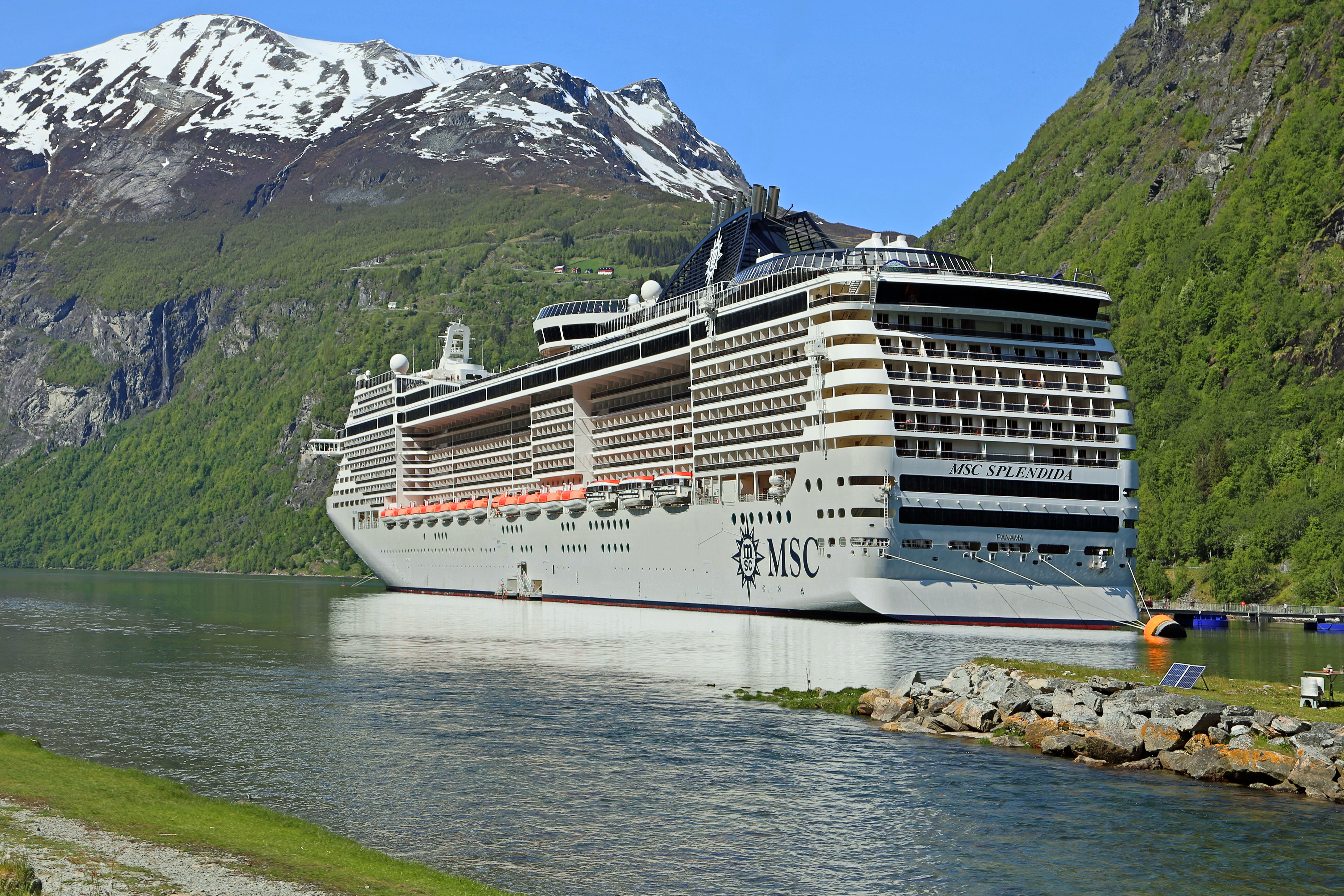 Cruise ship (MSC Splendida of the Swiss shipping company Crociere) in the Geirangerfjord near Geiranger, Møre og Romsdal county, Norway. In the background is the Eagle Street.